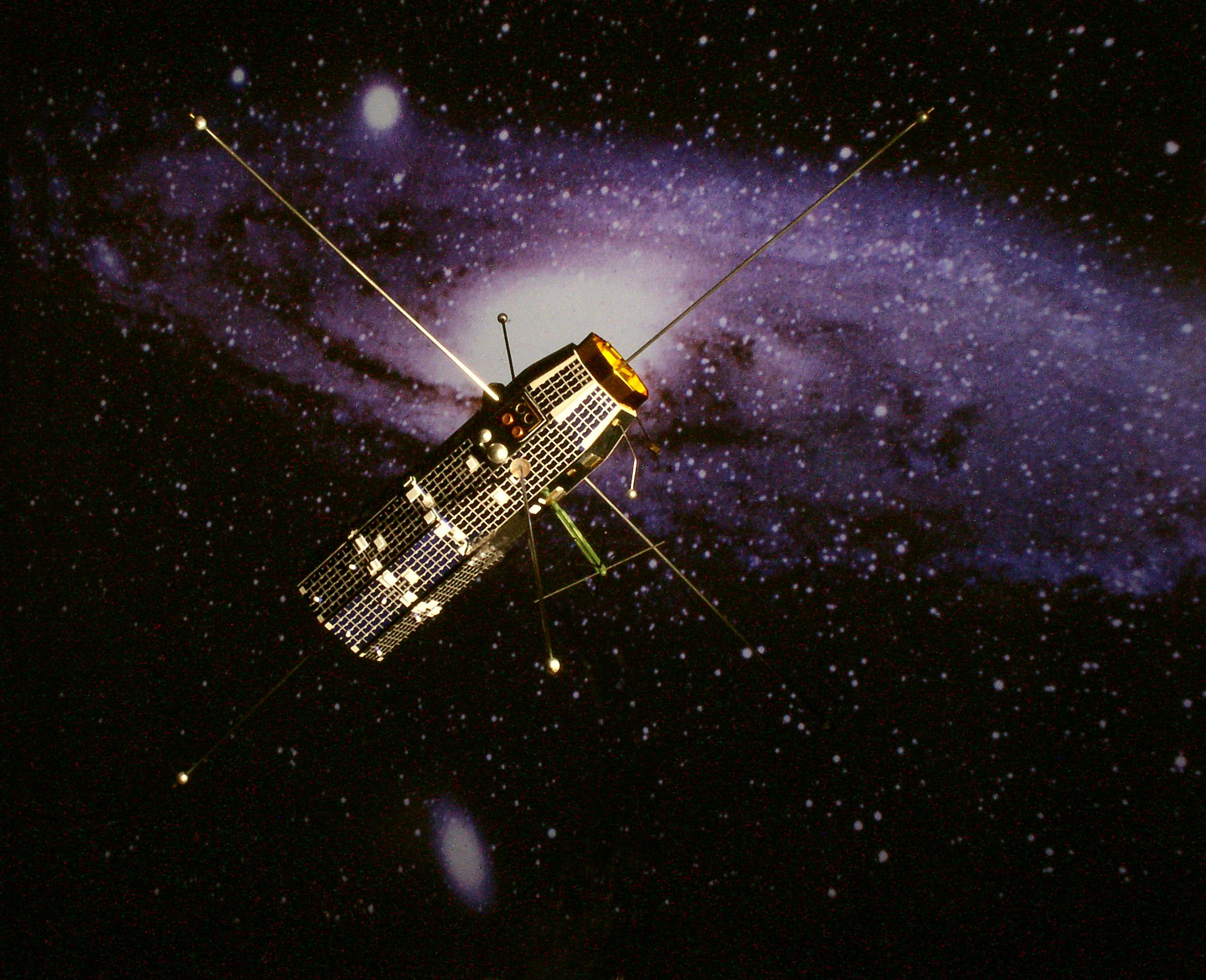 This photo shows a scale model of the C/NOFS probe. NASA's CINDI instrument is installed on C/NOFS. Graphic courtesy of the U.S. Air Force